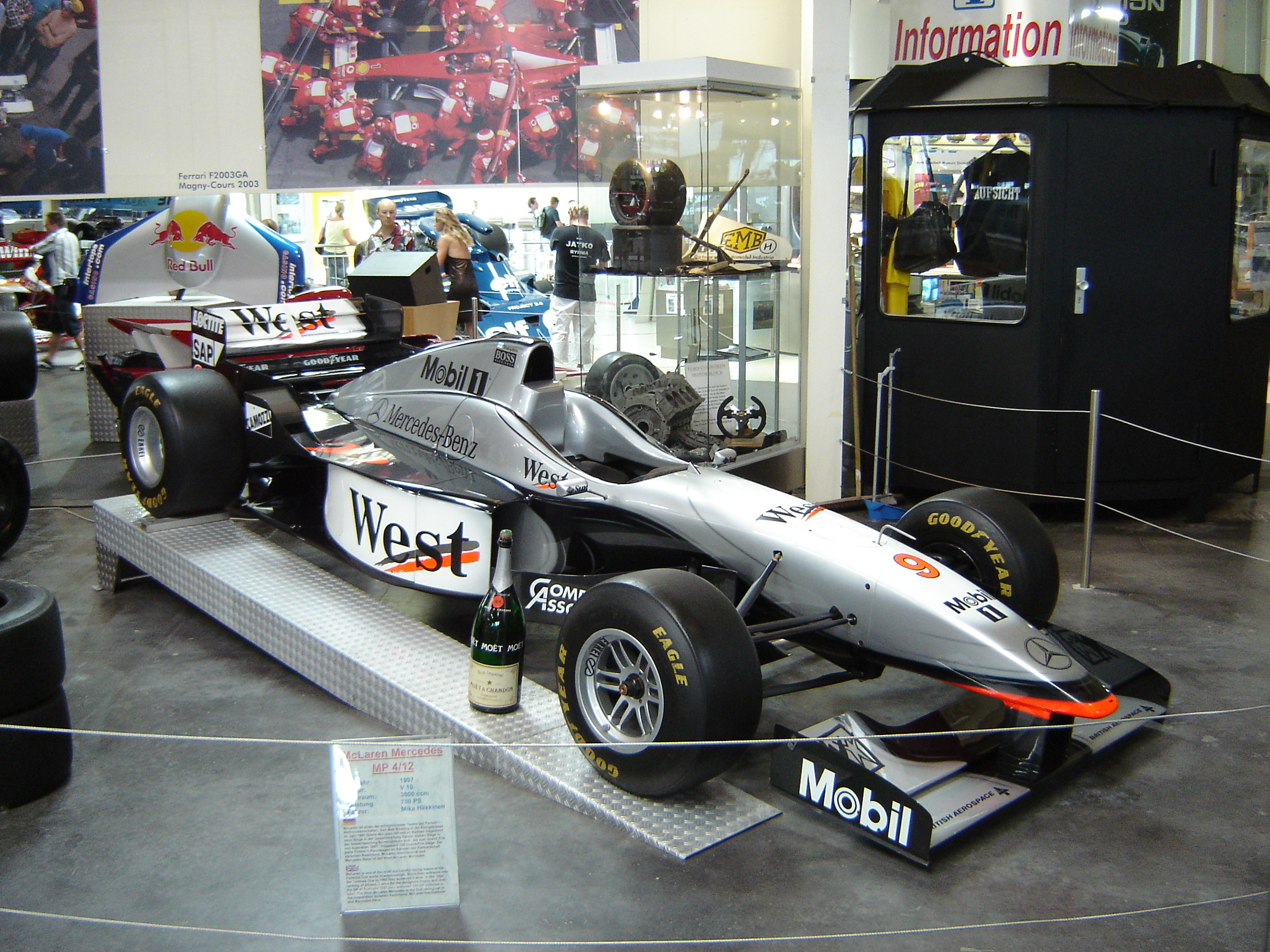 1996 McLaren MP4/11 with 1997 livery in Technical Museum Sinsheim